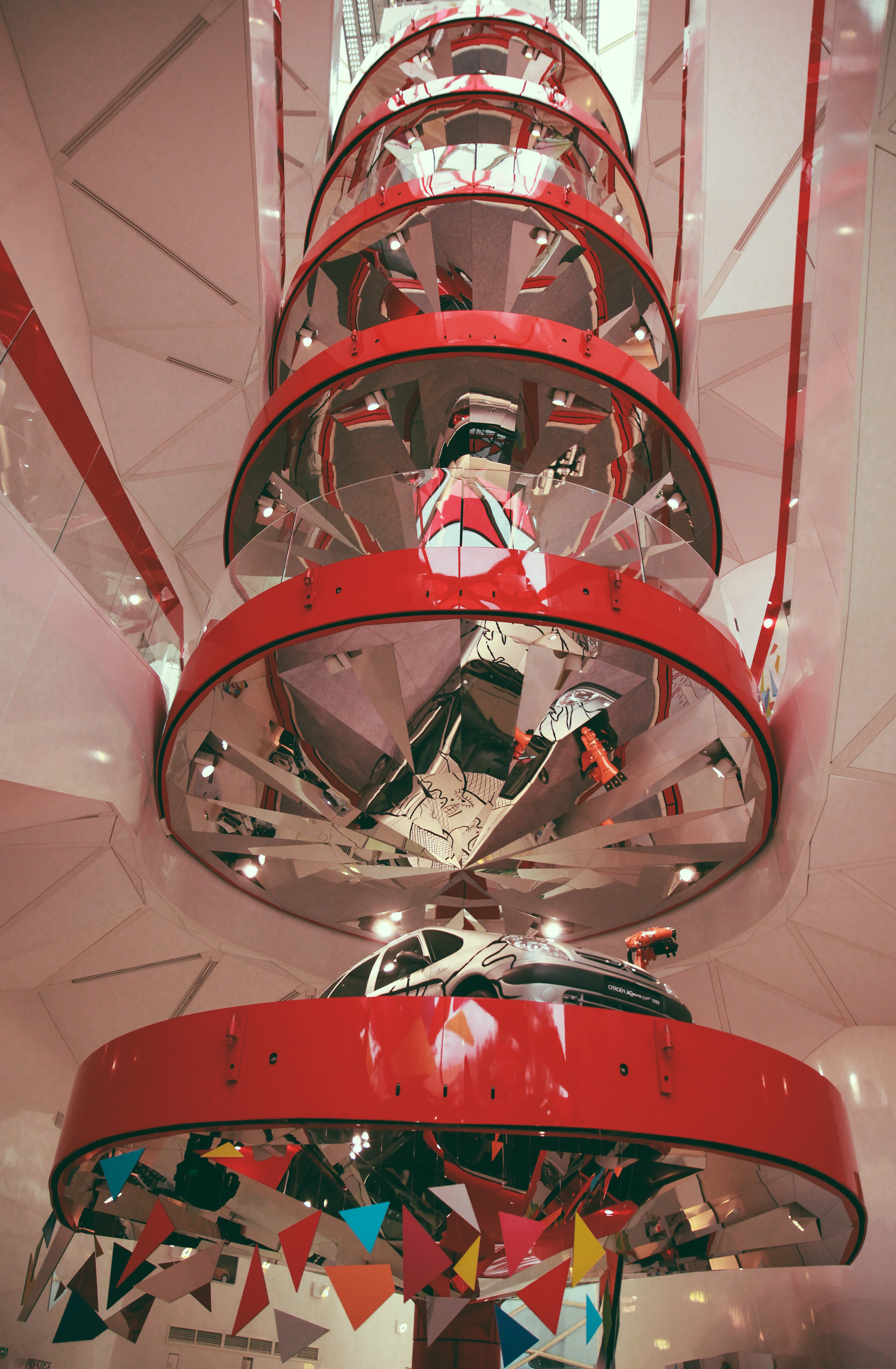 Citroën Showroom, Champs-Élysées, Paris.